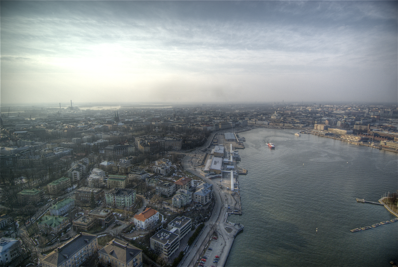 Downtown Helsinki viewed from a hot air balloon.